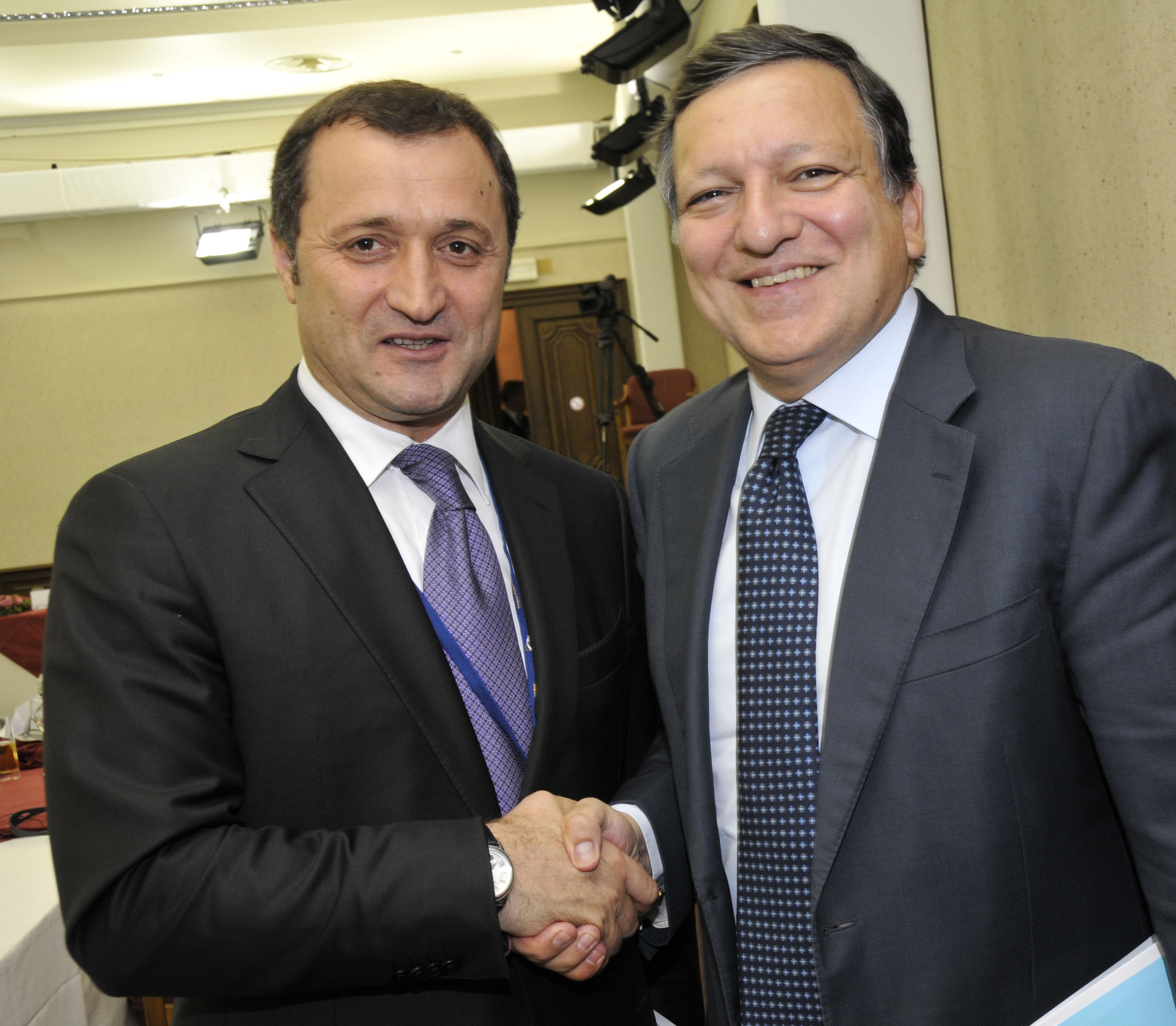 Vlad Filat and José Manuel Barroso at EPP Summit September 2010